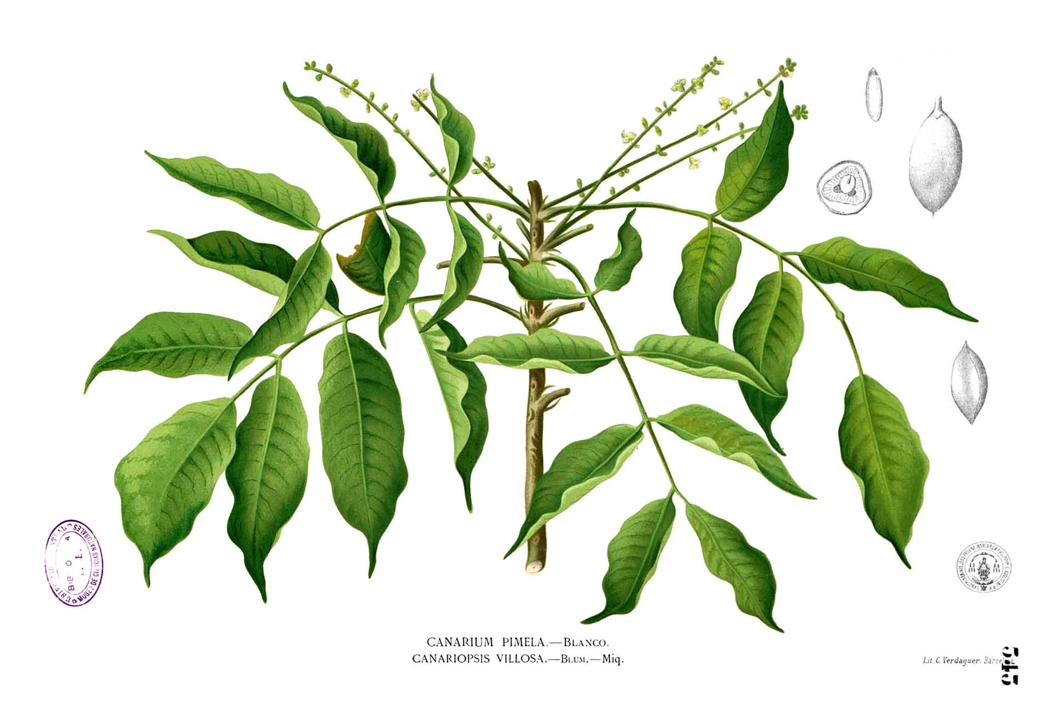 Canarium tramdenum (Syn. Canarium pimela) Plate from book